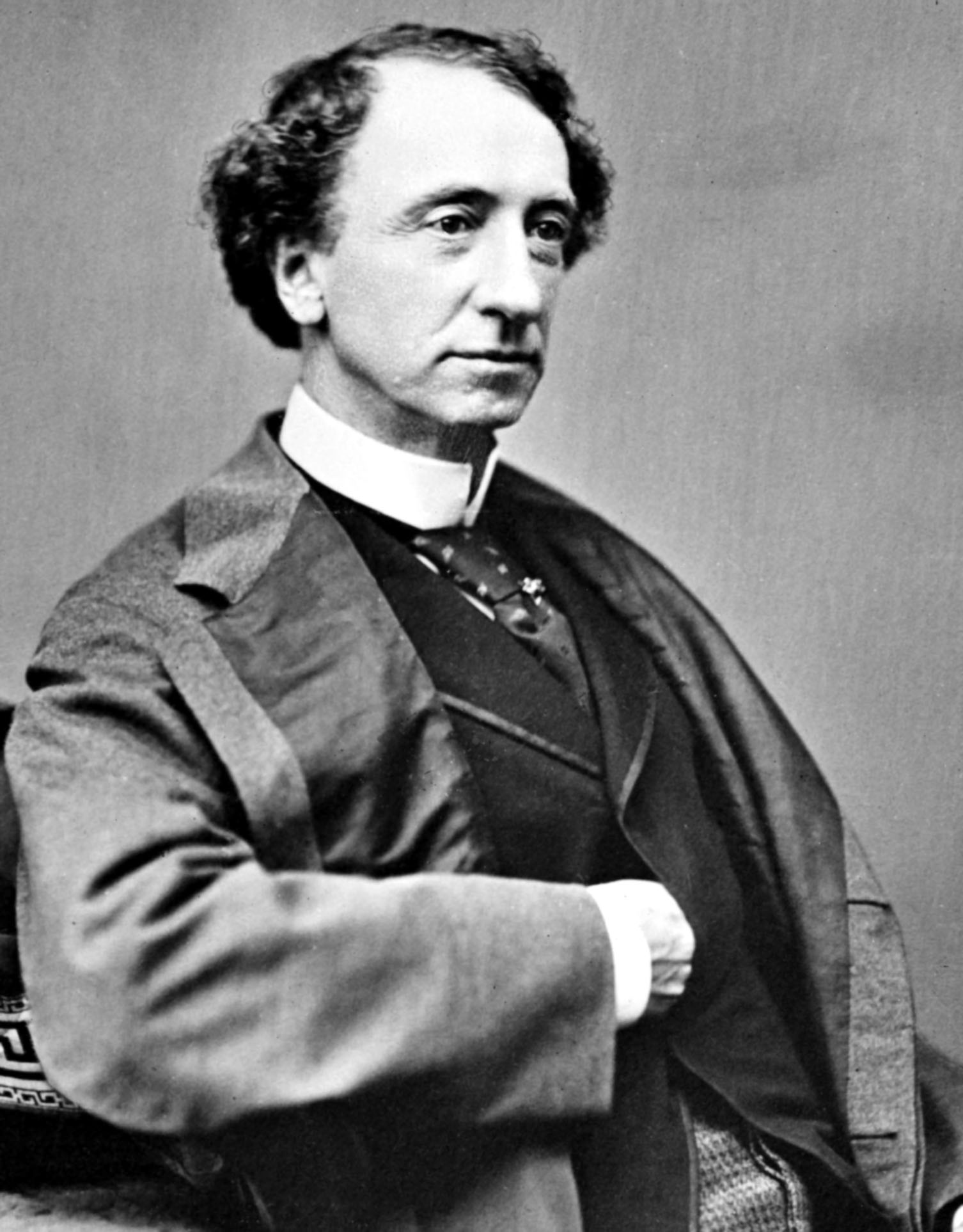 John A. Macdonald, 1st Prime Minister of Canada.